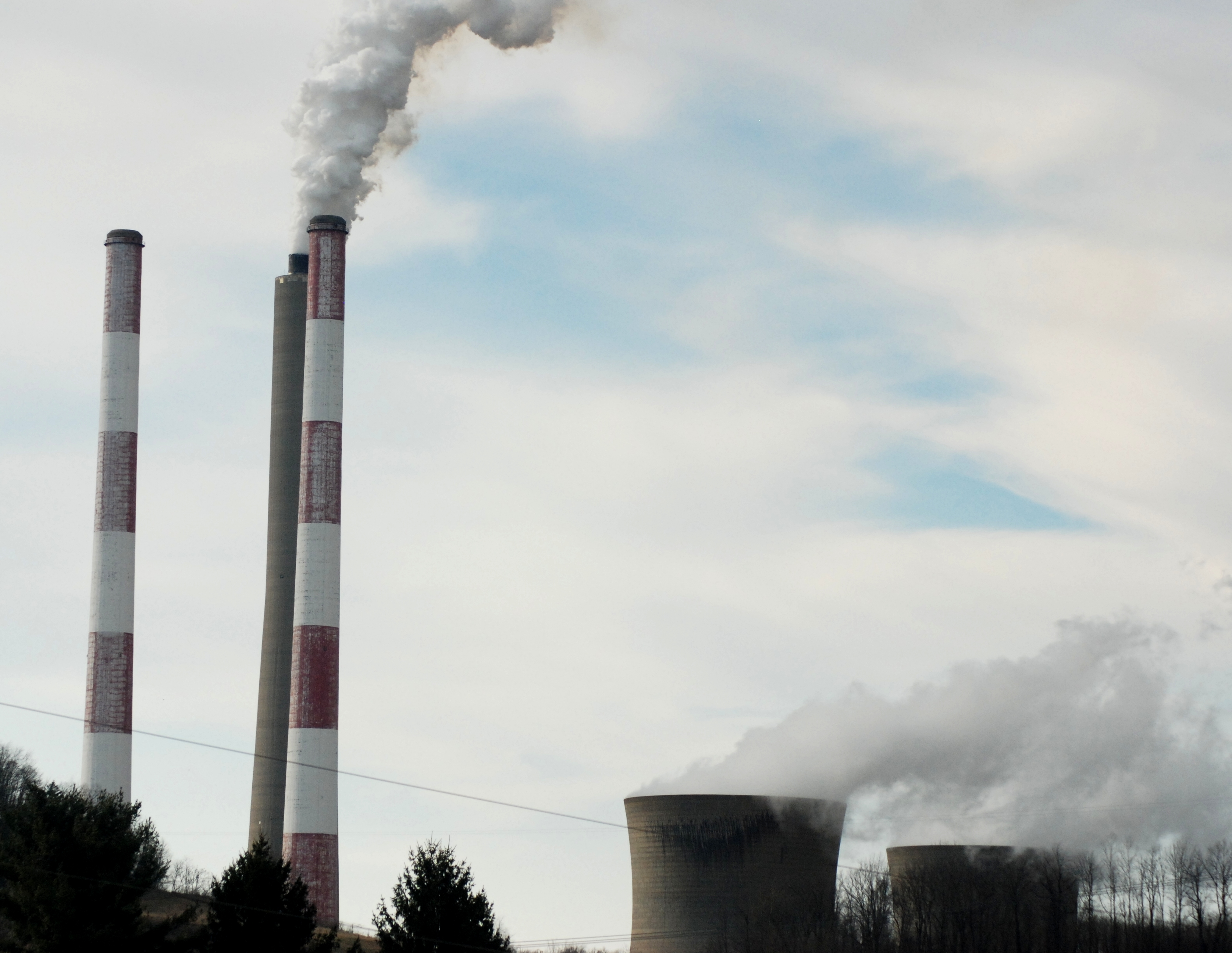 A view of the chimneys from the east.